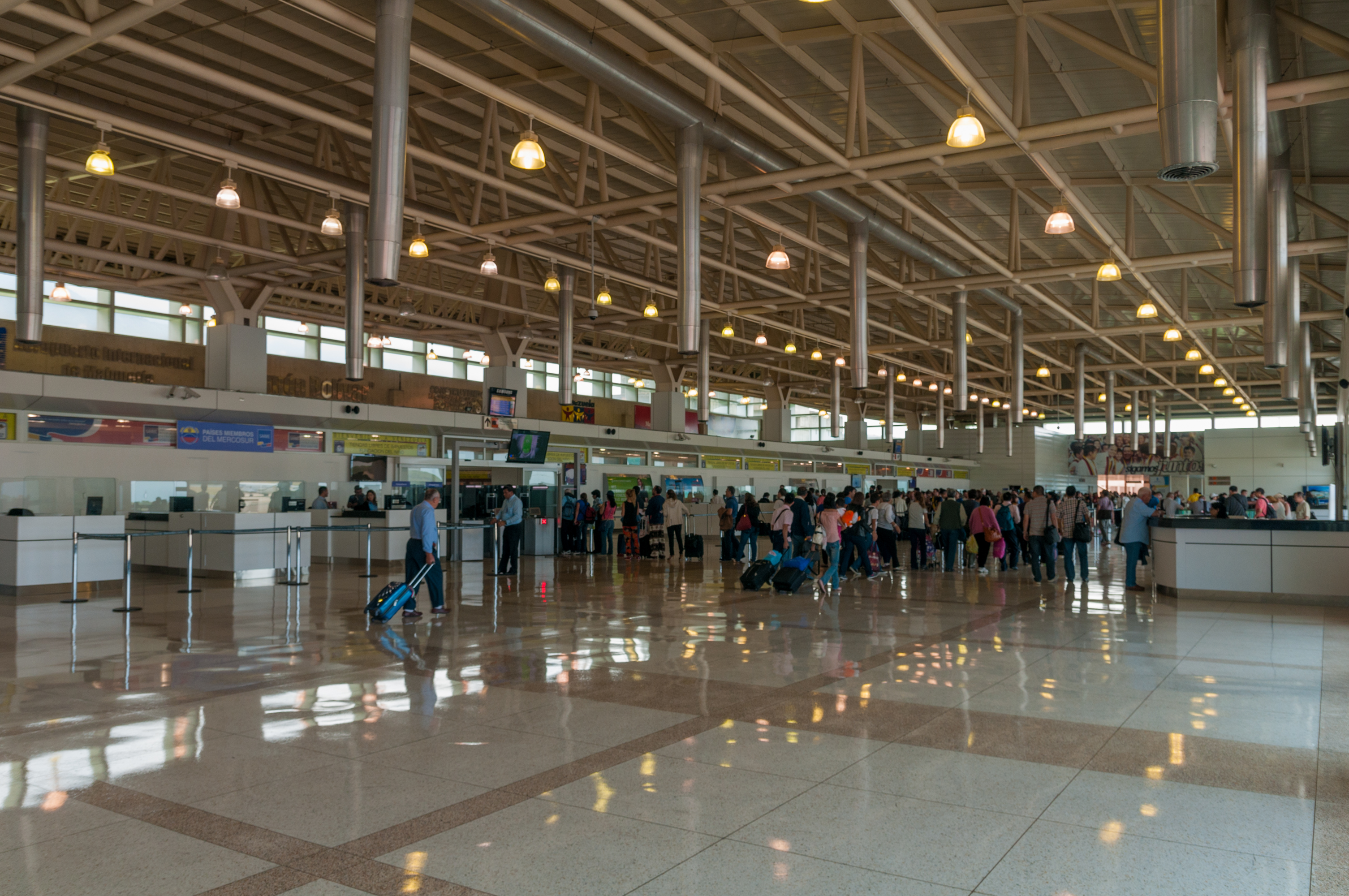 Simón Bolívar International Airport, Caracas, Venezuela.